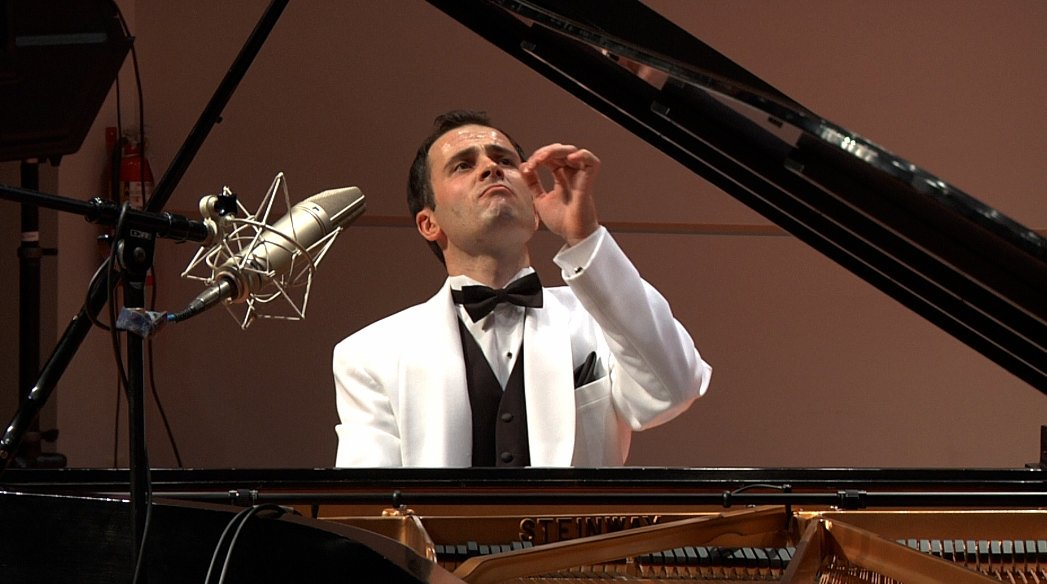 Giorgi Latsabidze playing Debussy's 12 Preludes (II Book)